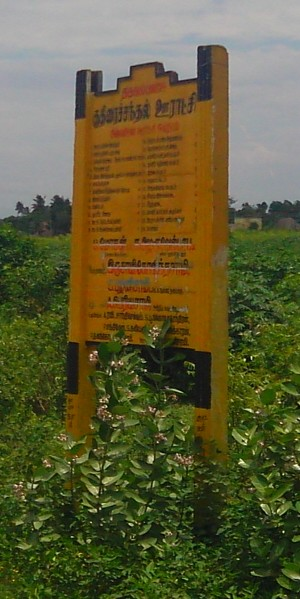 Kuthiraichandal Panchayt, Kallakurichi Taluk, Villupuram District, Tamilnadu, India.